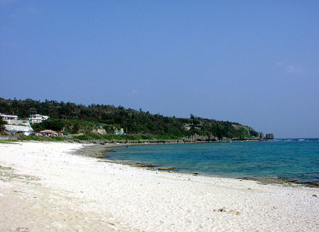 Itoman Oowatari Beach